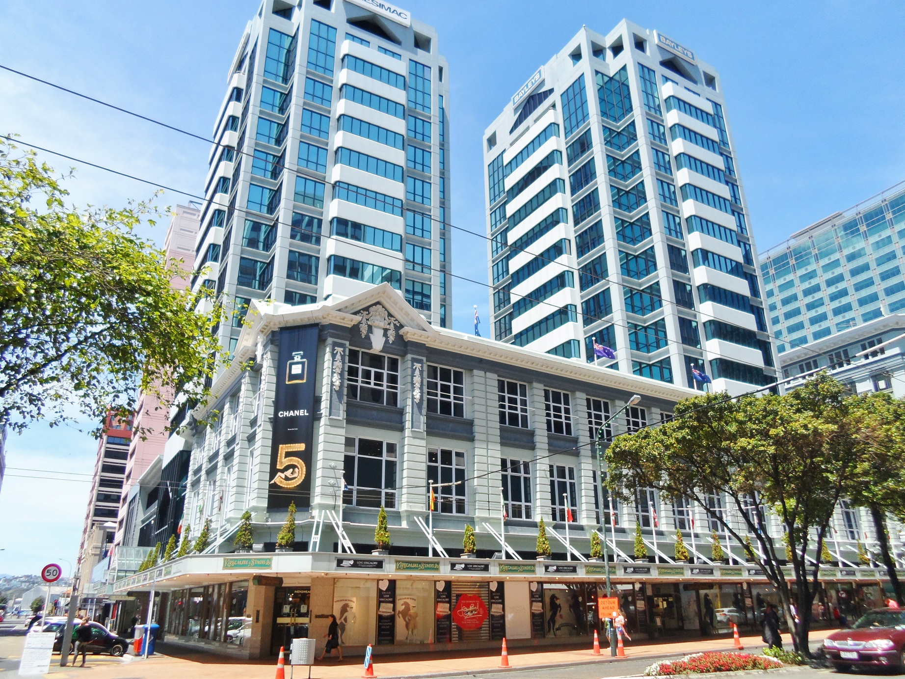 Independent New Zealand department store Kirkcaldie & Stains in 2015.